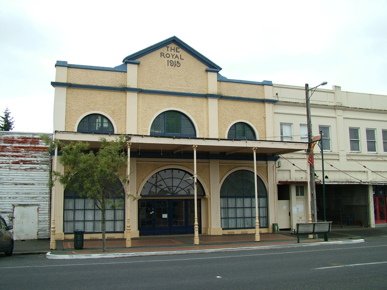 One of NZ’s oldest movie theatres, Raetihi’s Royal Theatre built in 1915.